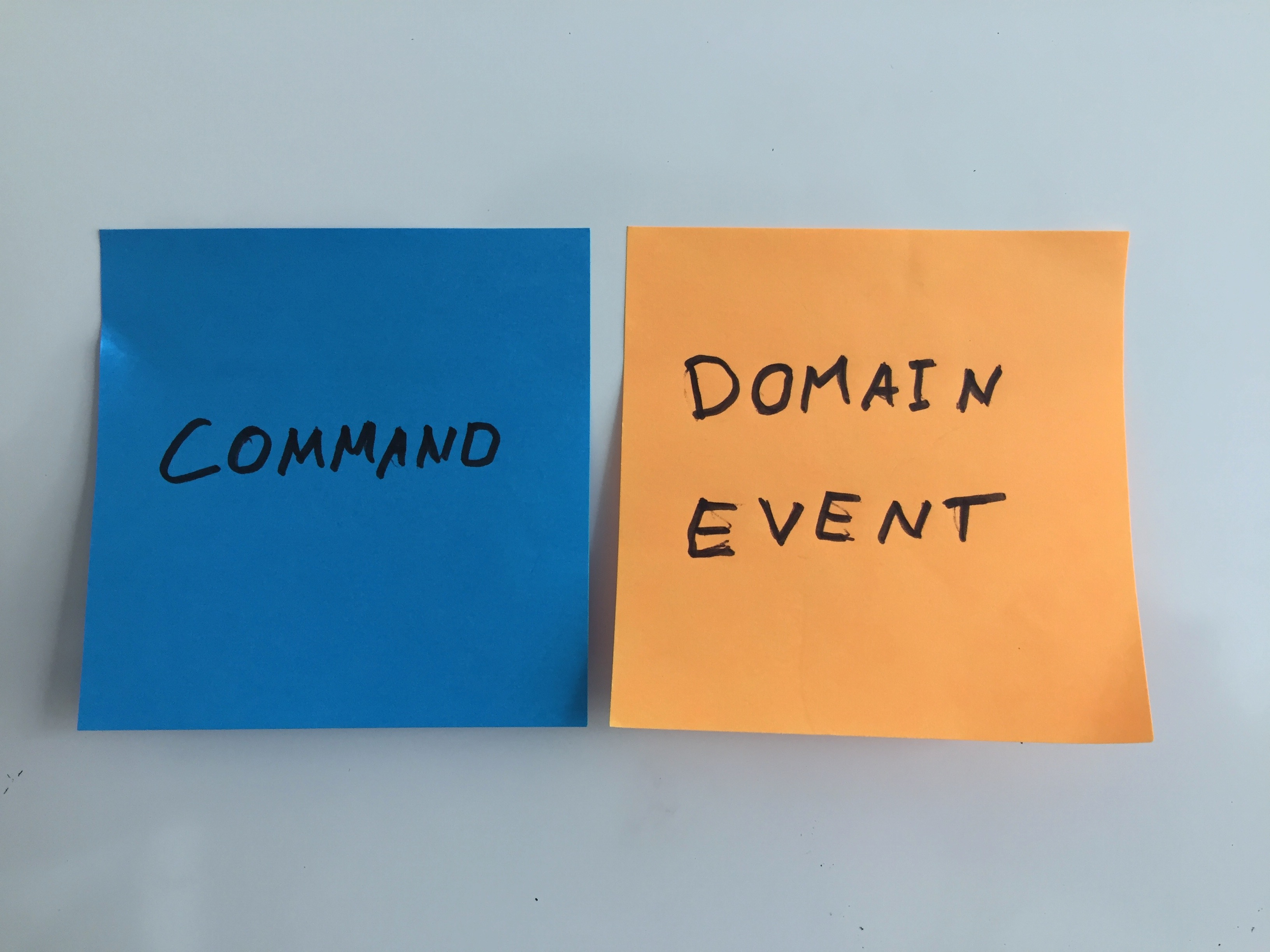 A command with the domain event it caused